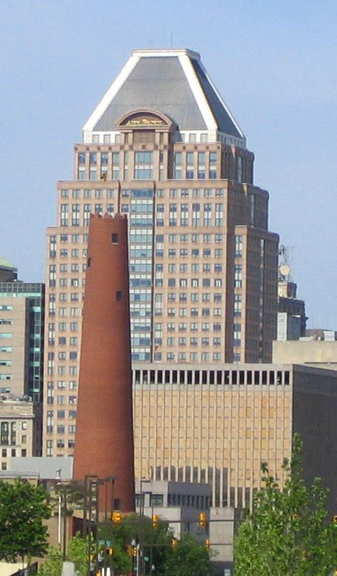 Commerce Place, a skyscraper in Baltimore, with the Phoenix Shot Tower in the foreground.